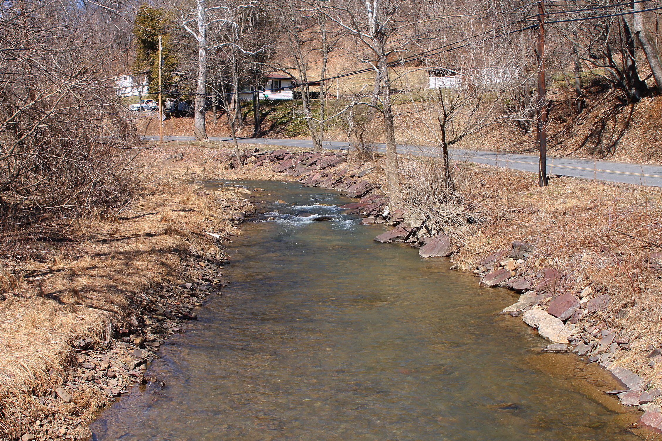 Hemlock Creek looking upstream near its mouth, at Perry Ave